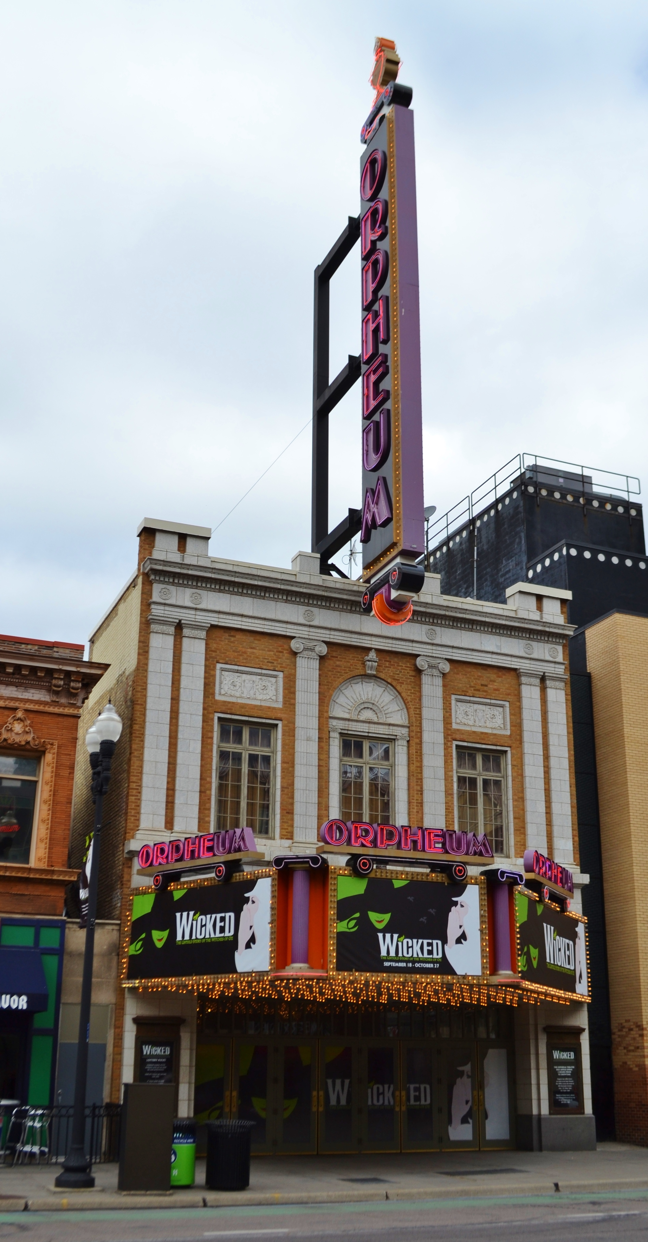 Hennepin Theatre, 910 Hennepin Ave. Minneapolis